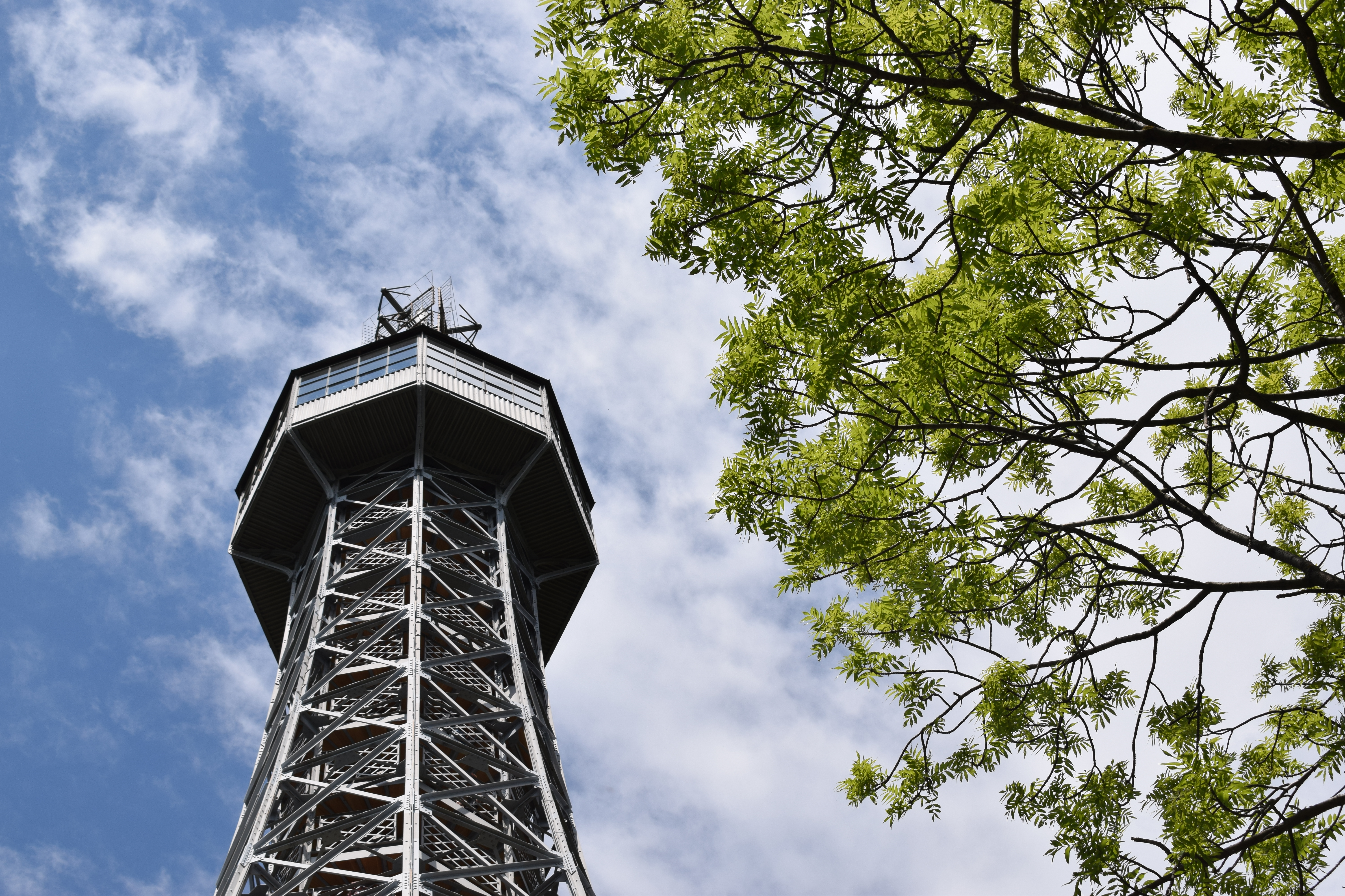 Top of the Petřín Tower in Prague, Czech Republic